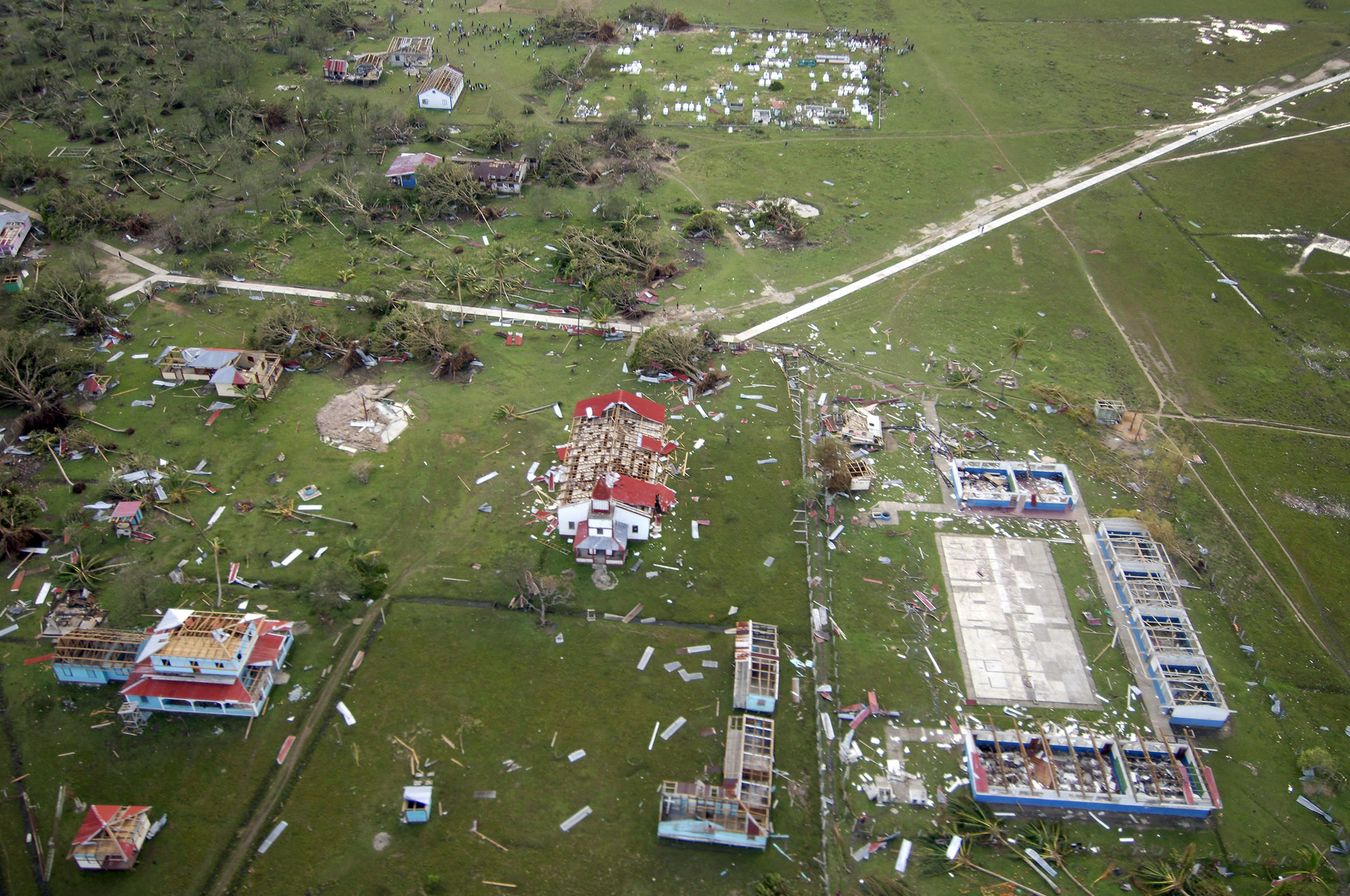 PUERTO CABEZAS, Nicaragua (Sept. 6, 2007) - An aerial view from a U.S. Navy helicopter shows the devastation of Hurricane Felix along the eastern coast of Nicaragua. Multi-purpose amphibious assault ship USS Wasp (LHD 1) is in the area to assist with disaster relief efforts after being diverted from an international maritime exercise in Panama by U.S. Southern Command. U.S. Navy photo by Mass Communication Specialist 2nd Class Todd Frantom (RELEASED)